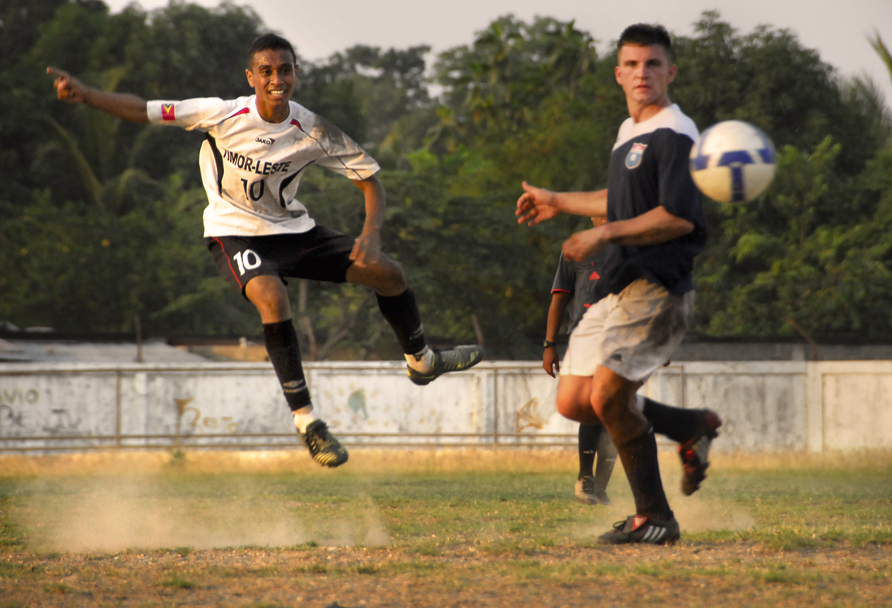 A Timor Leste player attempts a goal in a game against U.S. service members at the national soccer stadium here Oct. 18. The fledgling country’s secretary of youth and sports said the game was intended to promote peace and stability in the region. Timor Leste won 4-0. Some U.S. team members are Marines serving with the 11th Marine Expeditionary Unit, which deployed Sept. 24 from San Diego.